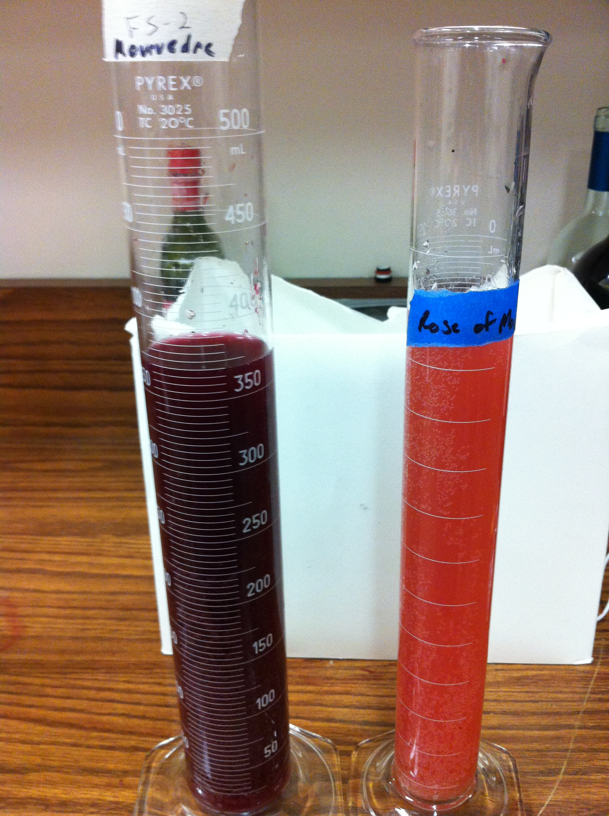 Example of two mourvedre wines made from the same batch of grapes. The same on the right is a rose that was produced by the saignee method and taken off the skins after 24 hours of skin contact, leaving the regular Mourvedre wine from which the sample on the left is from.